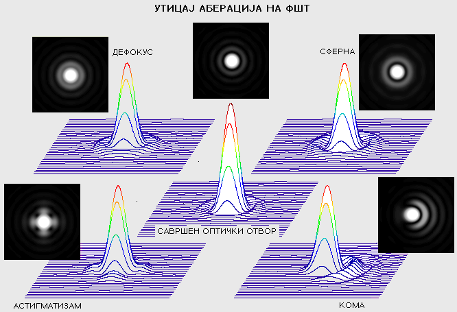 УТИЦАЈ АБЕРАЦИЈА НА ФУНКЦИЈУ ШИРЕЊА ТАЧКЕ